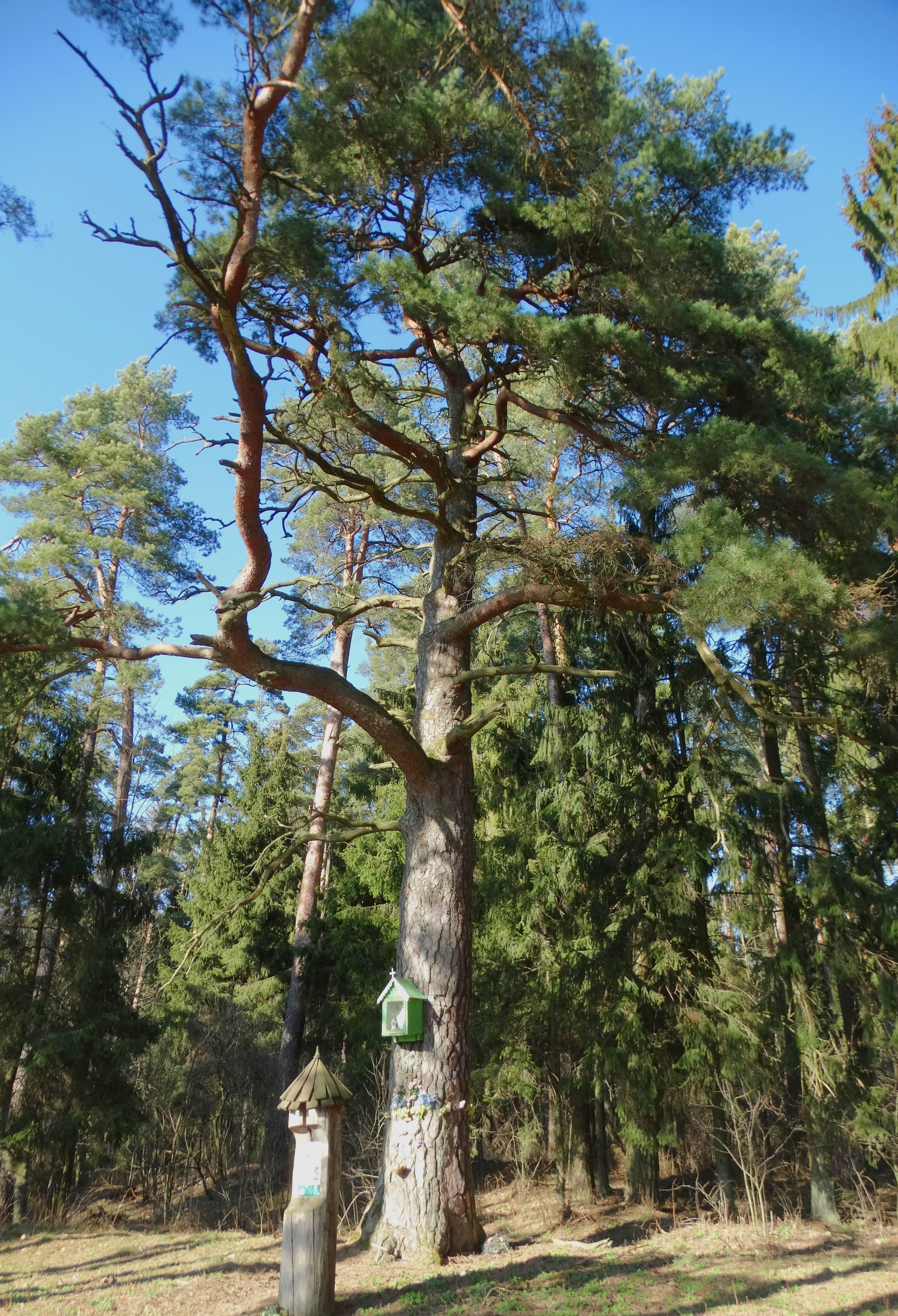 Pine tree, Šaukėnai, Kelmė district, Lithuania